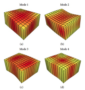 Vibrational Normal modes for a Parallelepiped